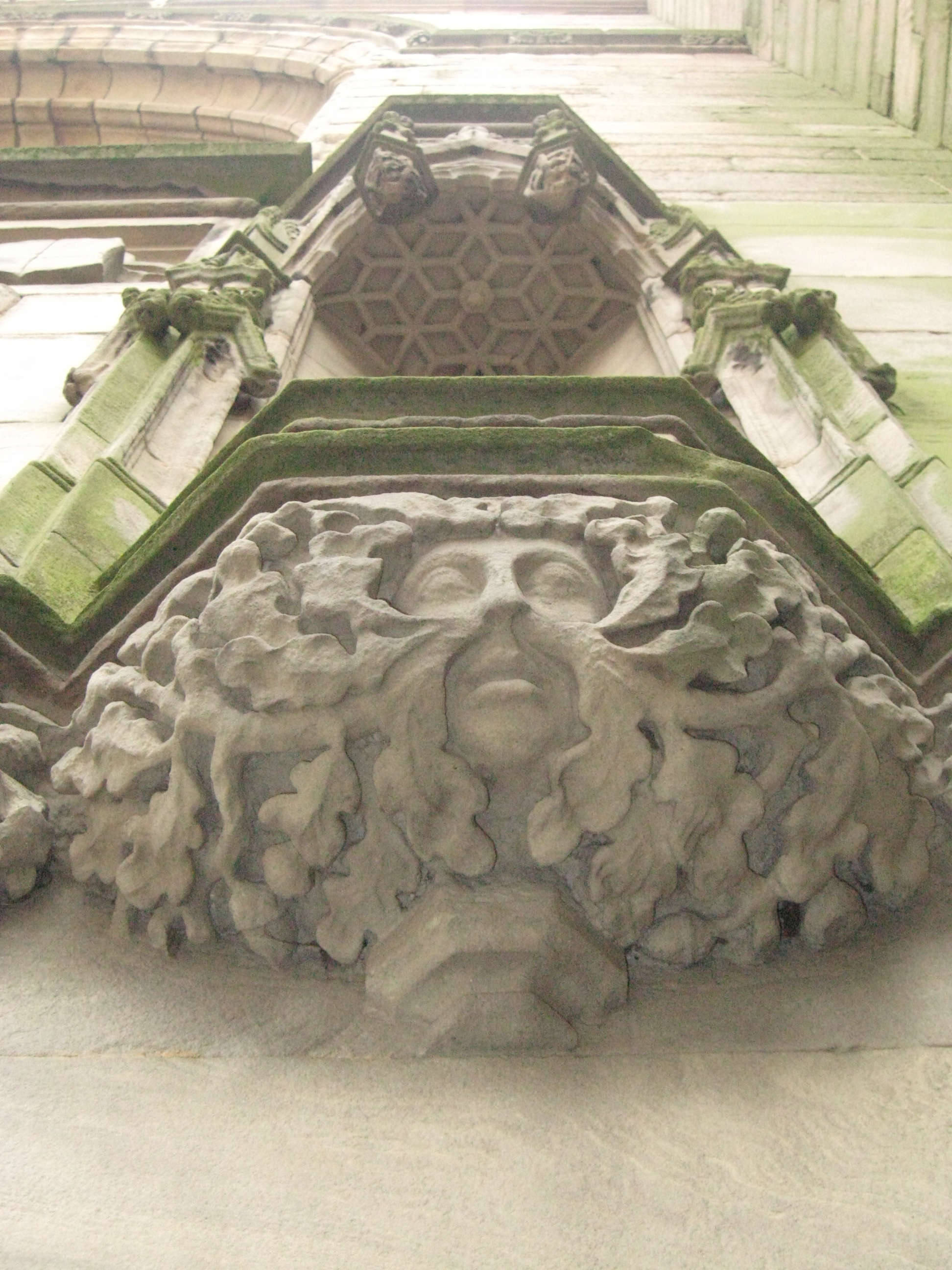 Head of a Green Man on the south side of the main west entrance of Derby Cathedral, England. A similar figure on the northern side of the entrance is shown surrounded by leaves, but without the vegetation emerging from its nose or mouth.